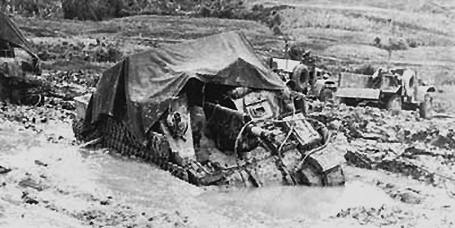 This self-propelled M-7 105mm gun was completely bogged down in the heavy rains which fell on Okinawa in the last weeks in May. It replaced the half-track mounted 75mm gun as the regimental commander's artillery in Operation ICEBERG.